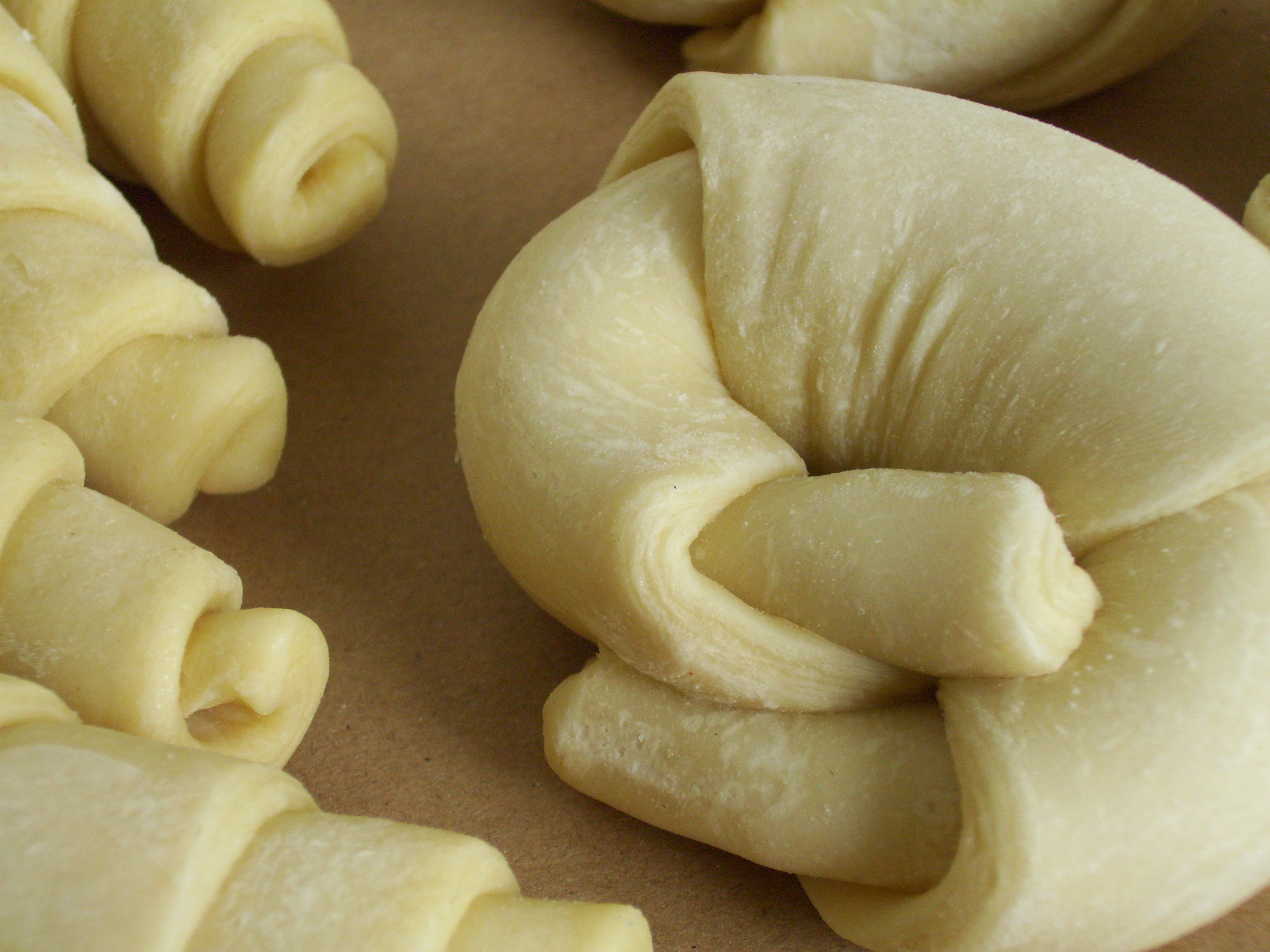 la parisienne croissant kitchen, sample of un baked croissant